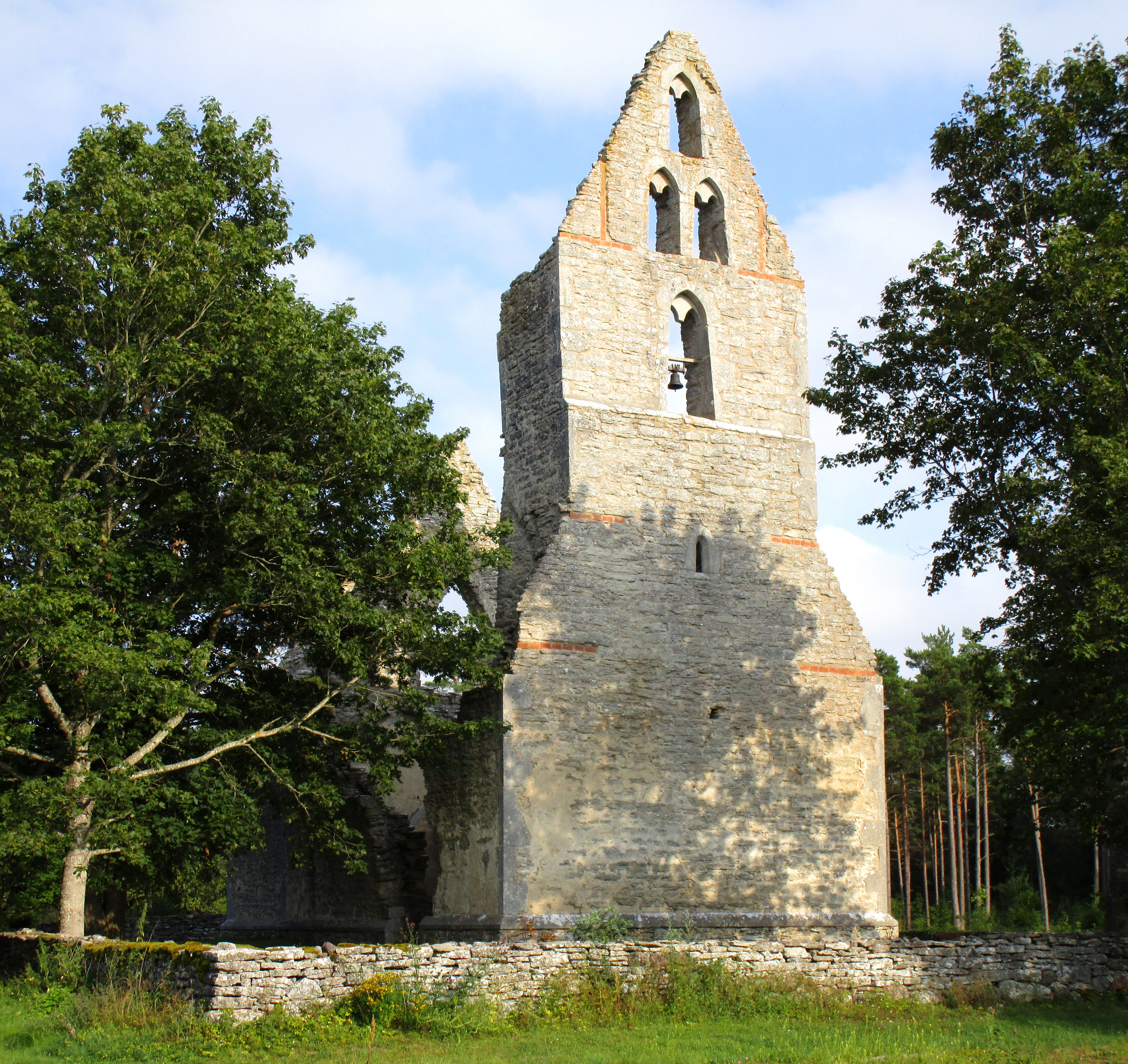 Bara Church ruin Gotland Sweden